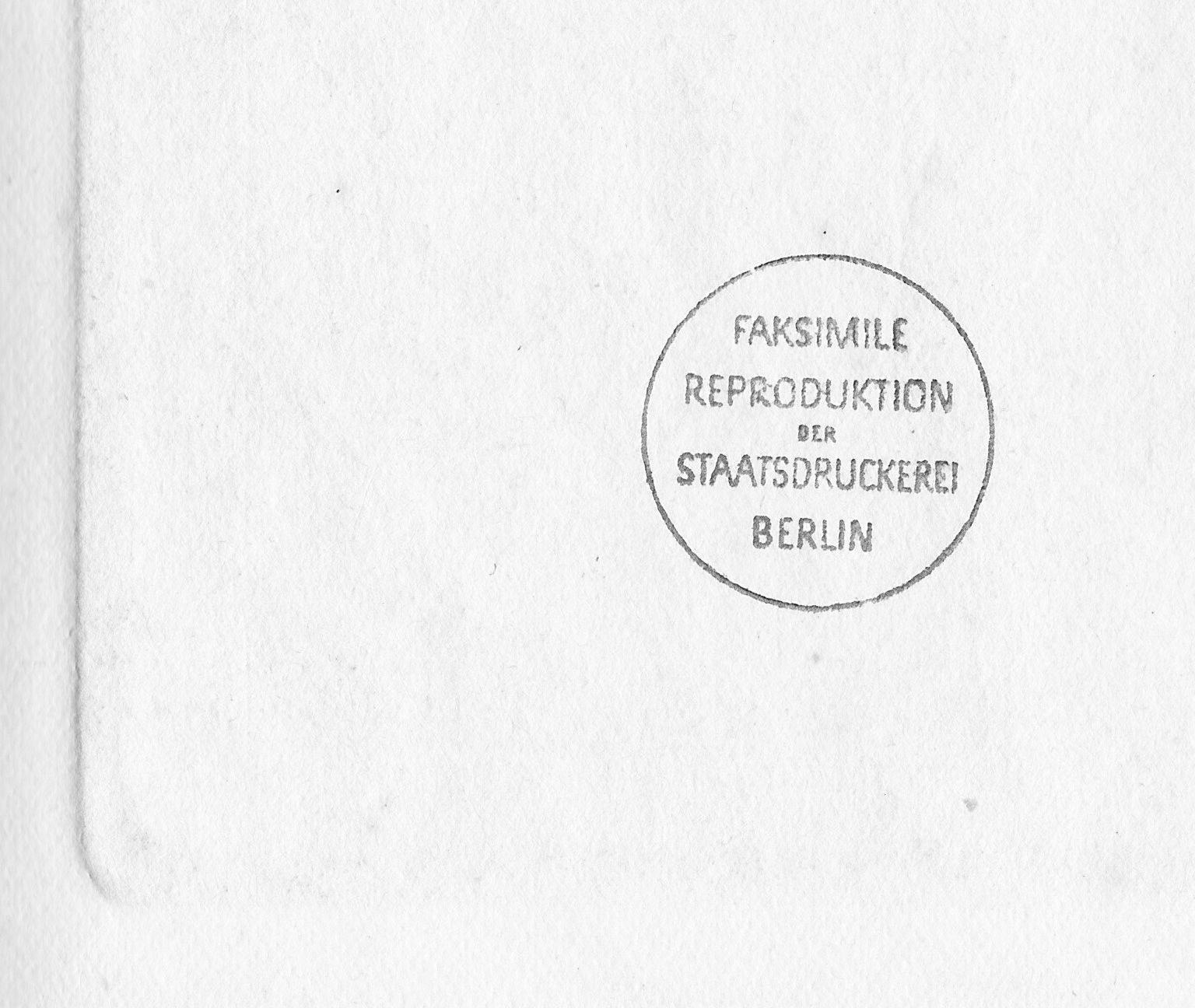 stamp on backside of a facsimile print ("Reichsdruck") from the Staatsdruckerei Berlin, about 1949-51